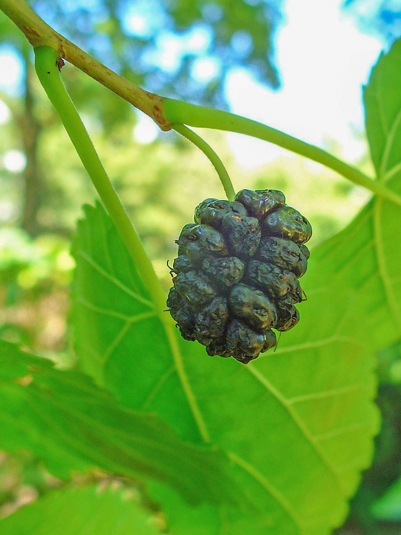 Morus nigra, Moraceae, Black Mulberry, fruit. Botanical Garden KIT, Karlsruhe, Germany.